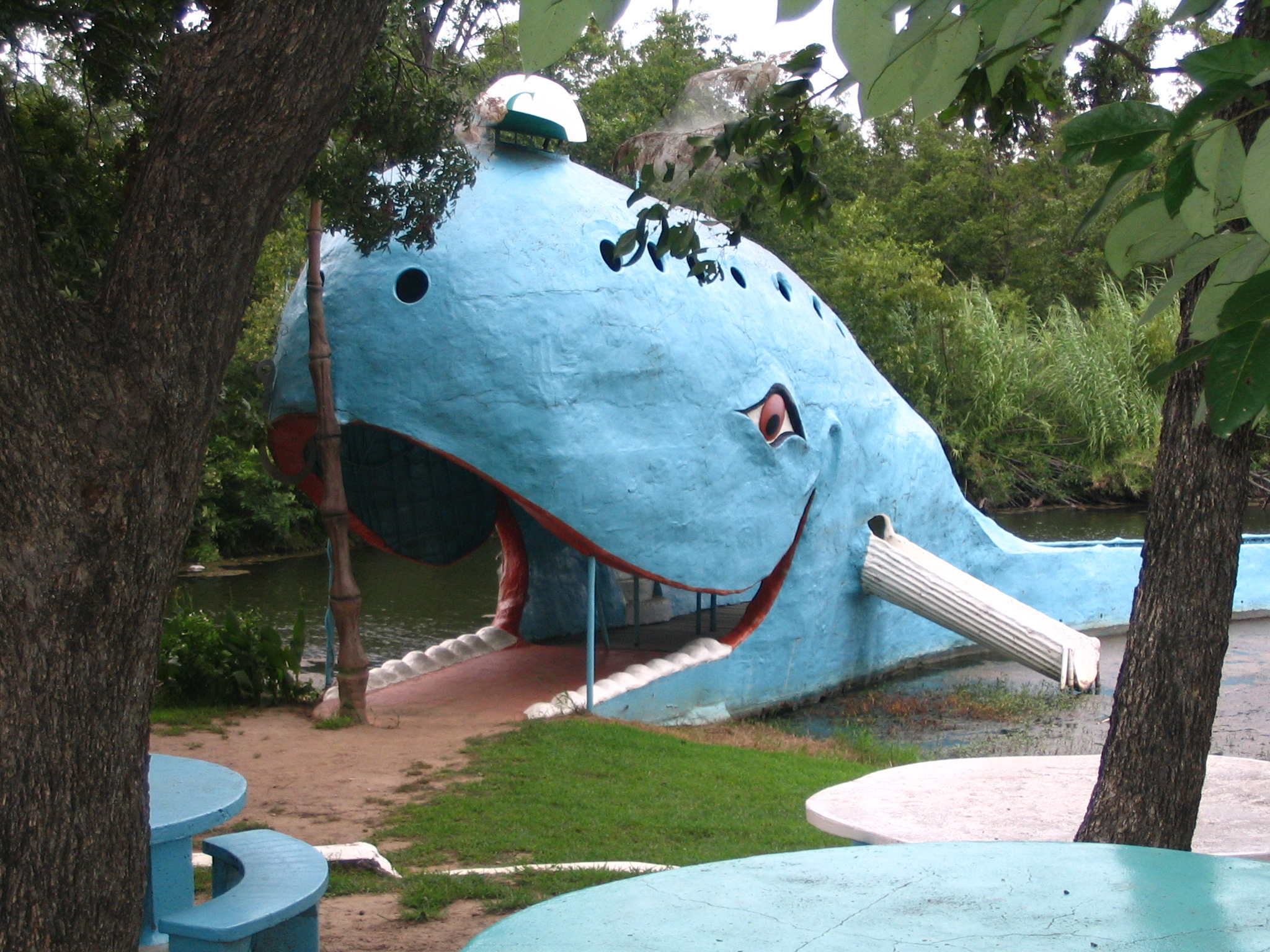 close up view of the "head" of the blue whale of Catoosa, showing a partial view of the picnic tables that have been placed near it.